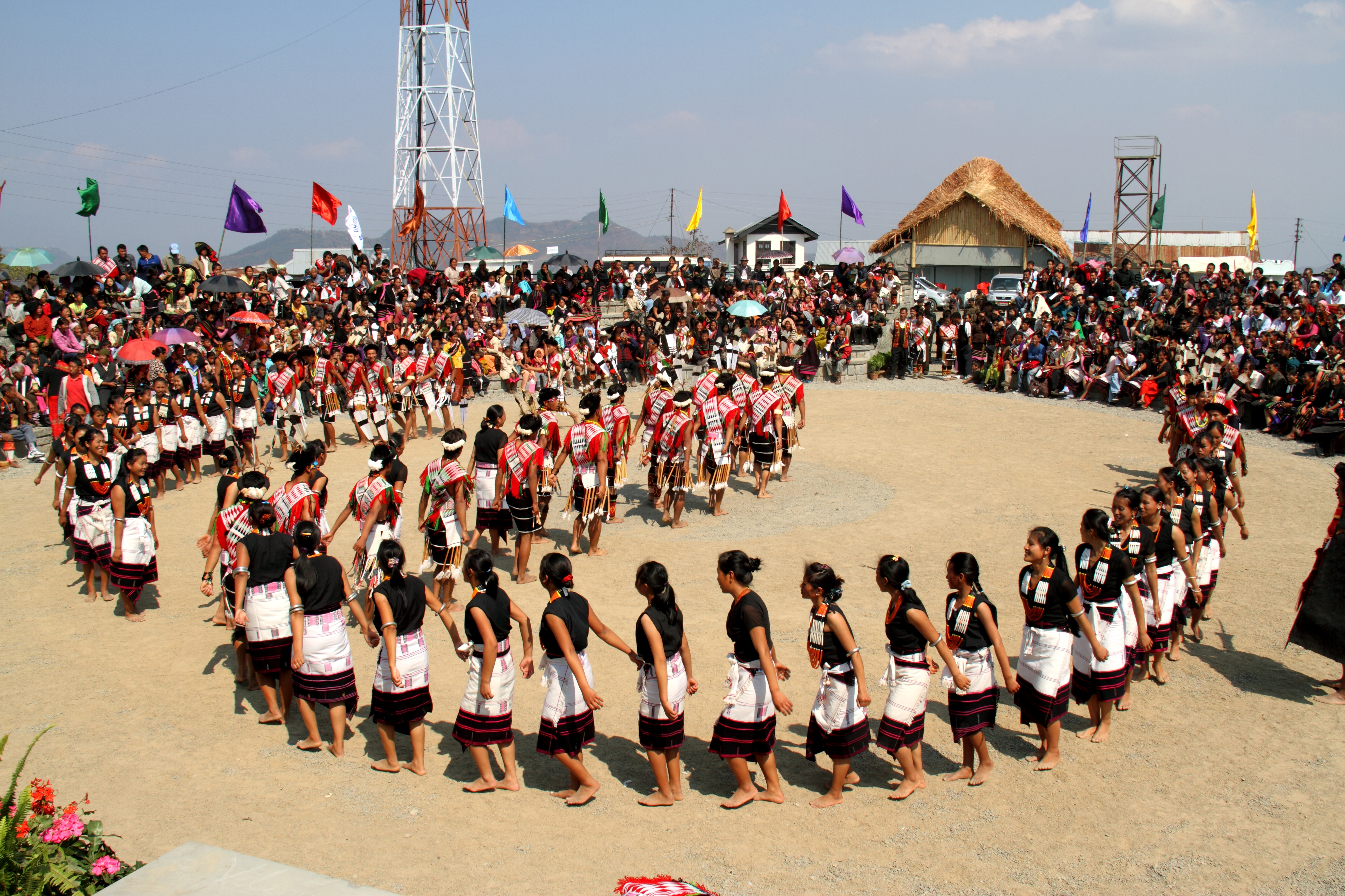 India, Nagaland, Danse during festival of angami tribe